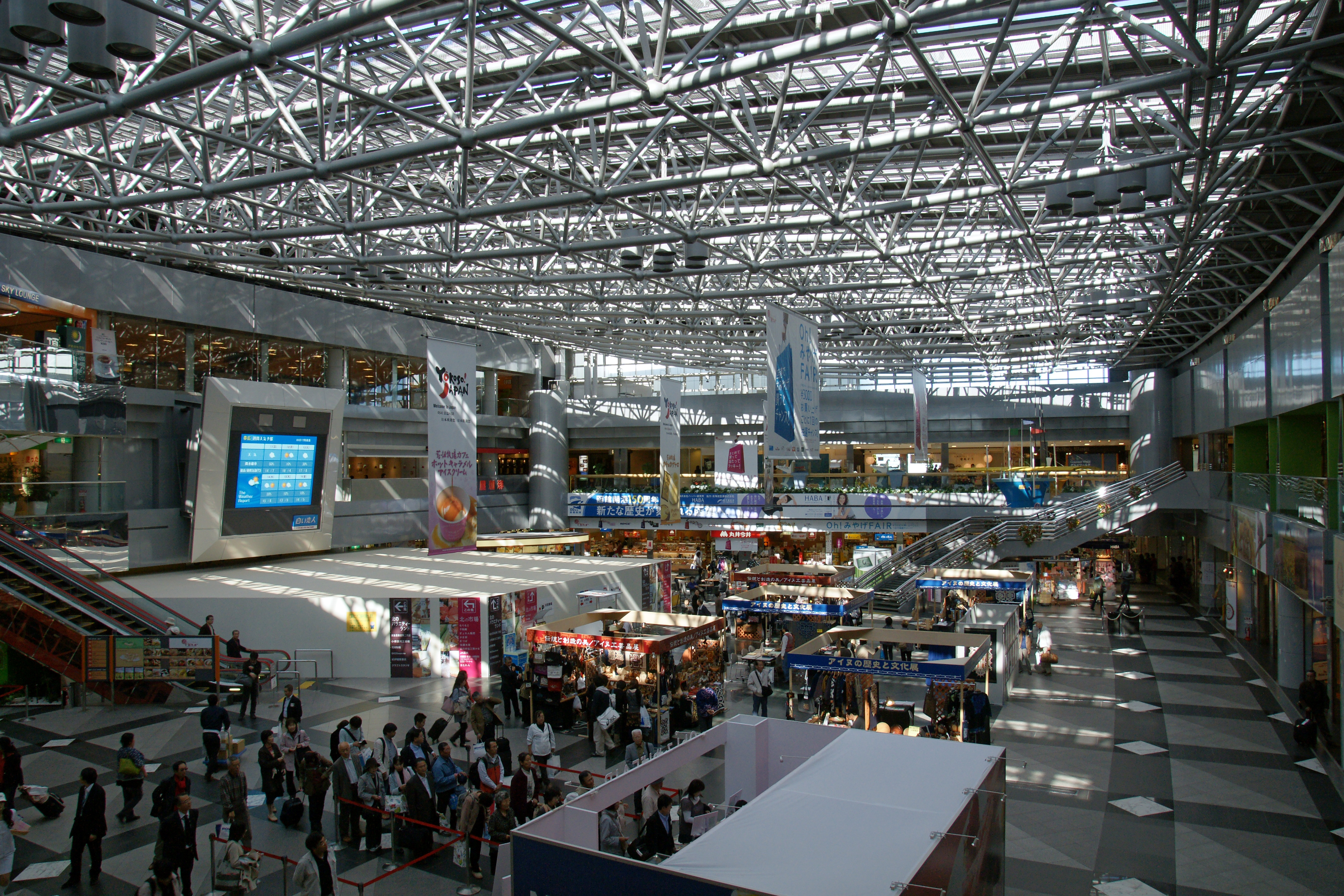 New Chitose Airport, Chitose, Hokkaido prefecture, Japan